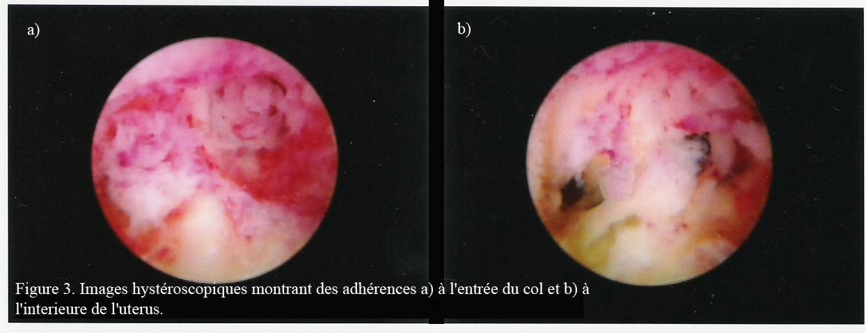 Hysteroscopic image of a uterus with intrauterine adhesions (Asherman's syndrome).